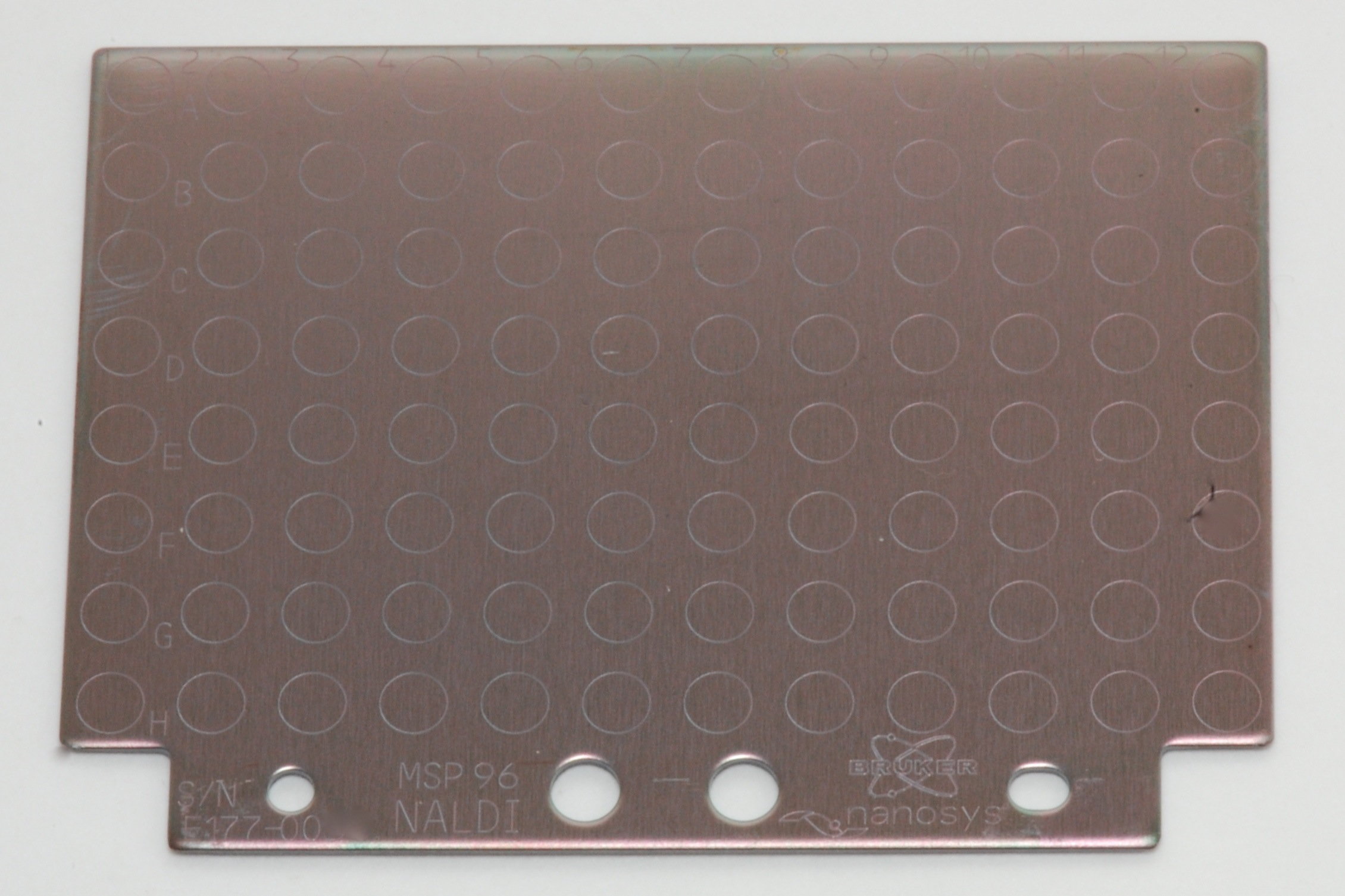 Nano-Assisted Laser Desorption/Ionization target for mass spectrometry analysis of deposited samples